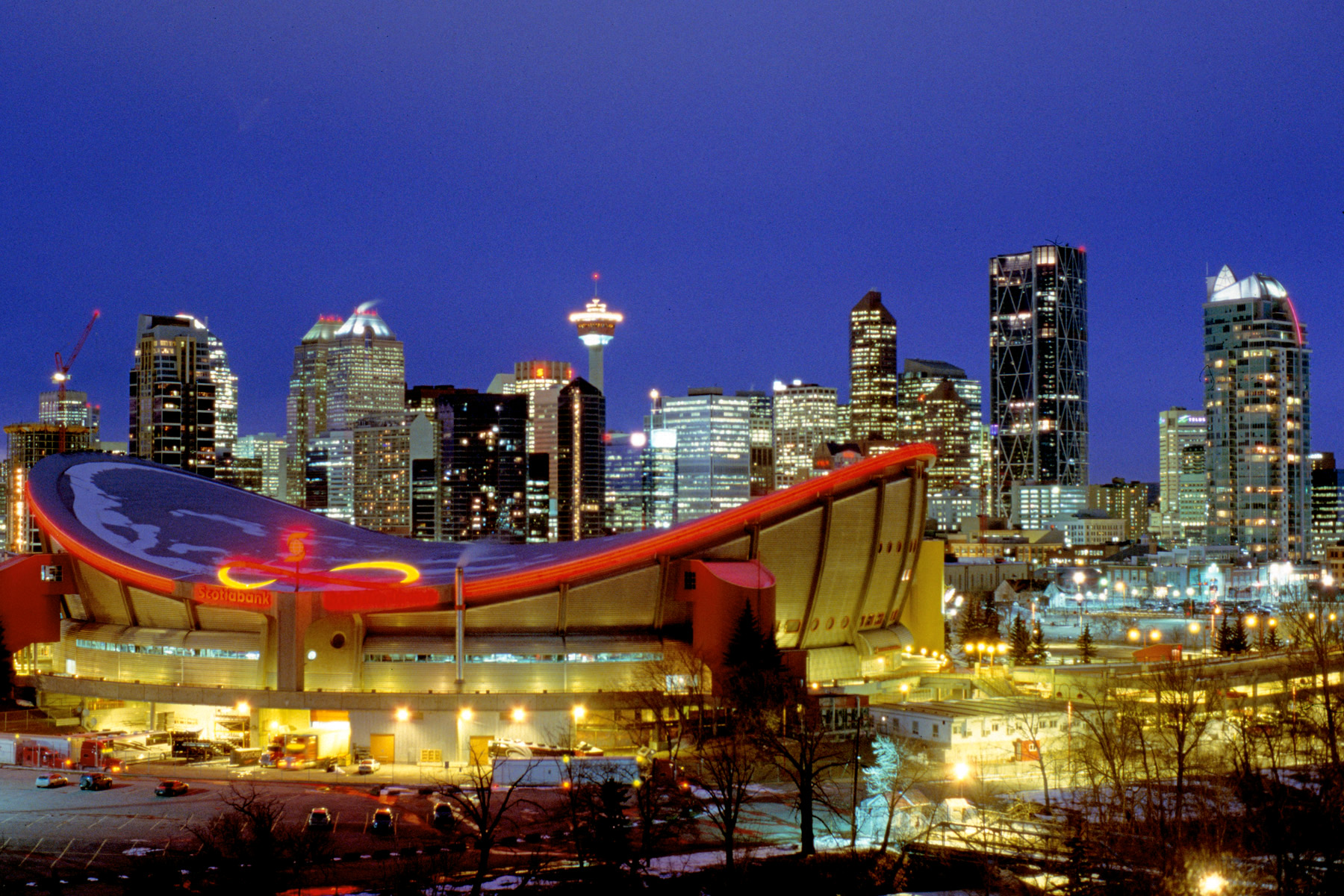 View of Calgary City, Canada.